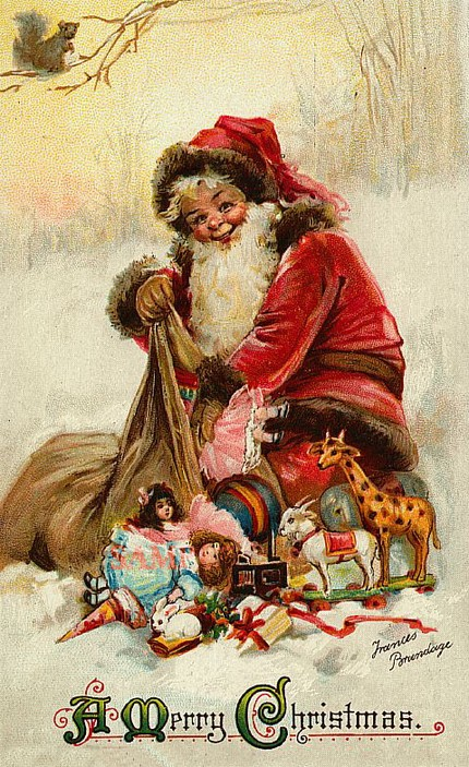 Christmas card by Frances Brundage